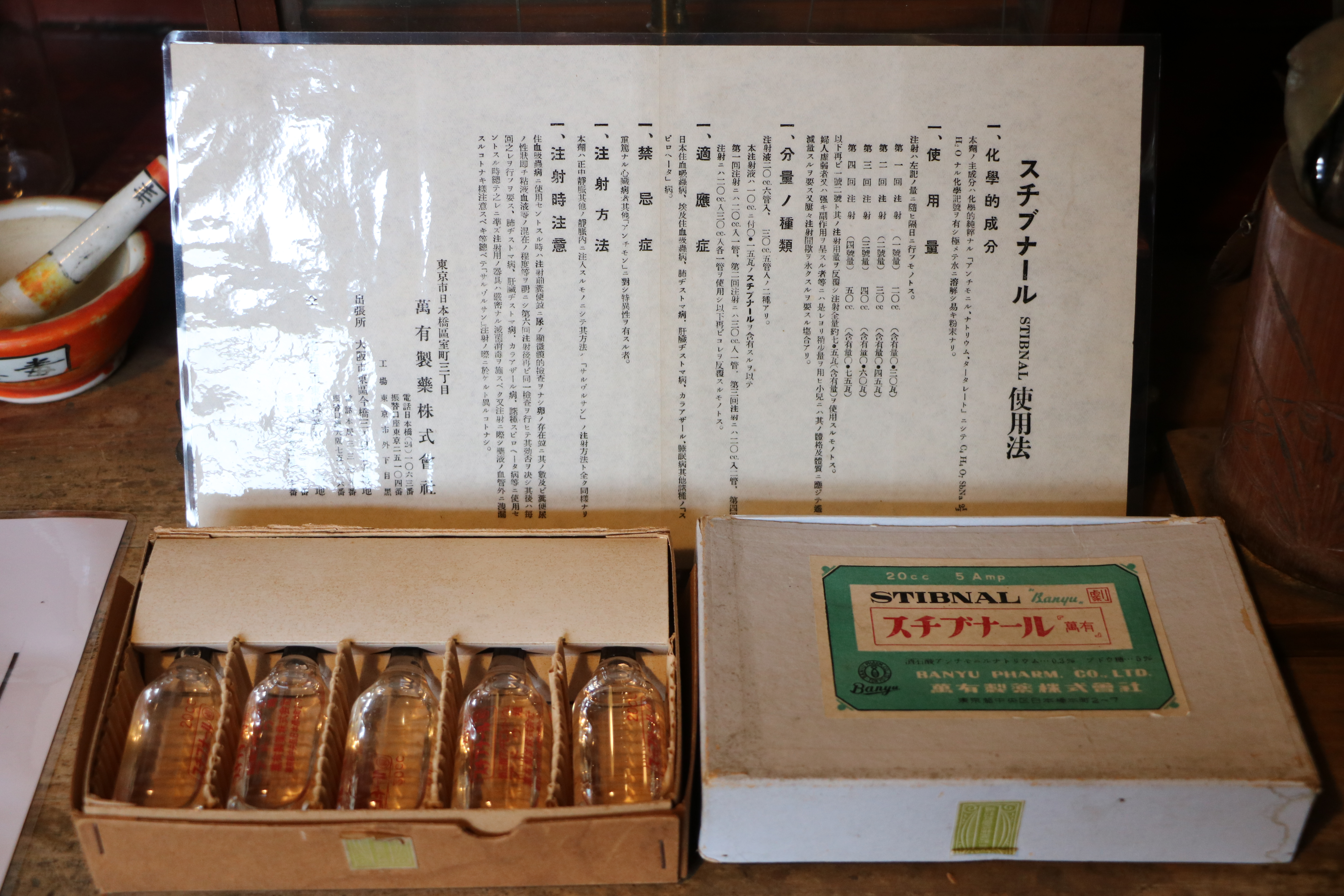 Anthelmintic for schistosomiasis japonica, Stibnal ampoule and package